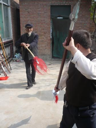 During an exercise in pair of Meihuaquan in Liangshan